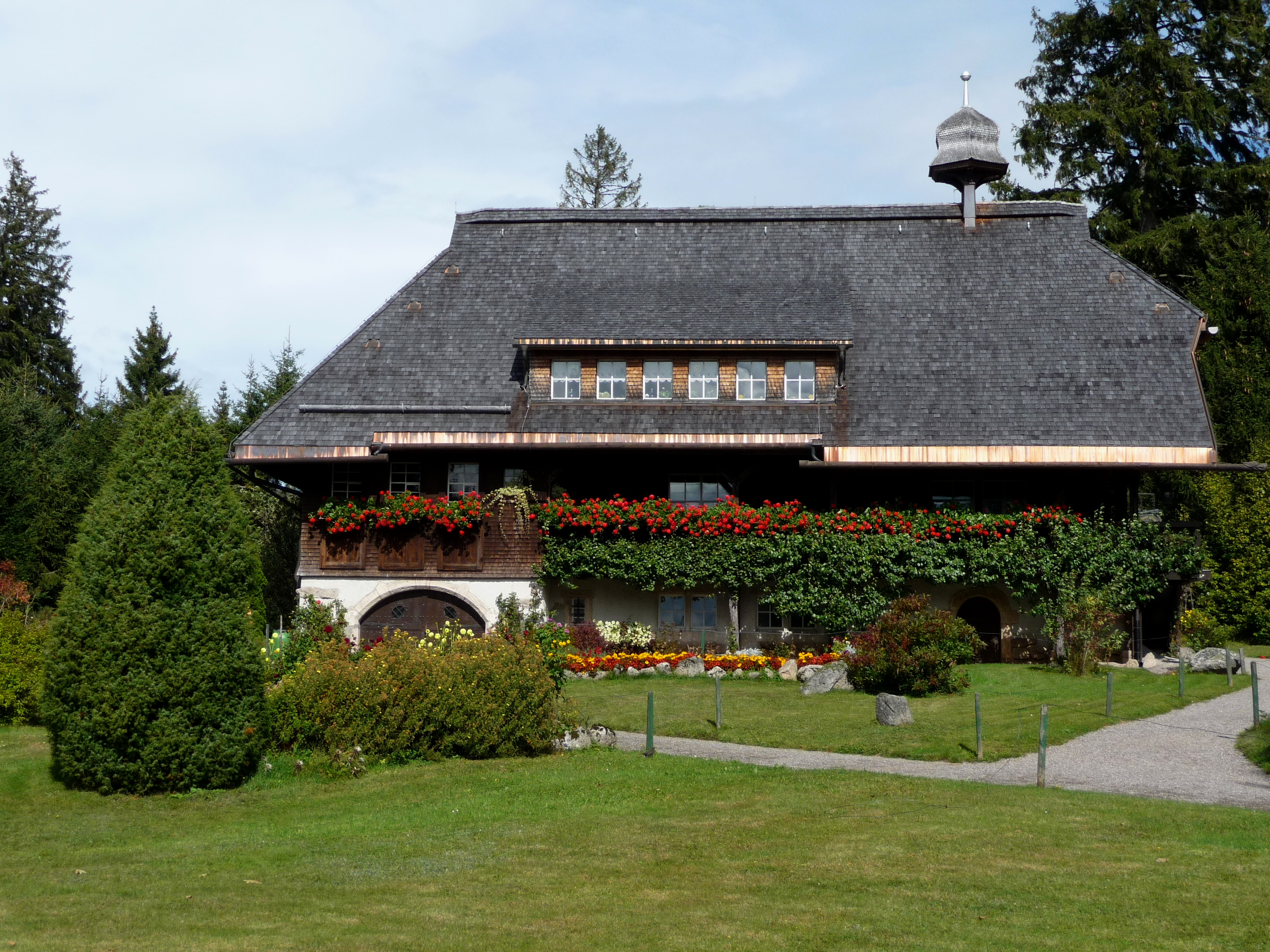 Hüsli museum in Grafenhausen, Germany, Exterior of Professor Brinkmann's residential in the television series "The Black Forest Clinic"